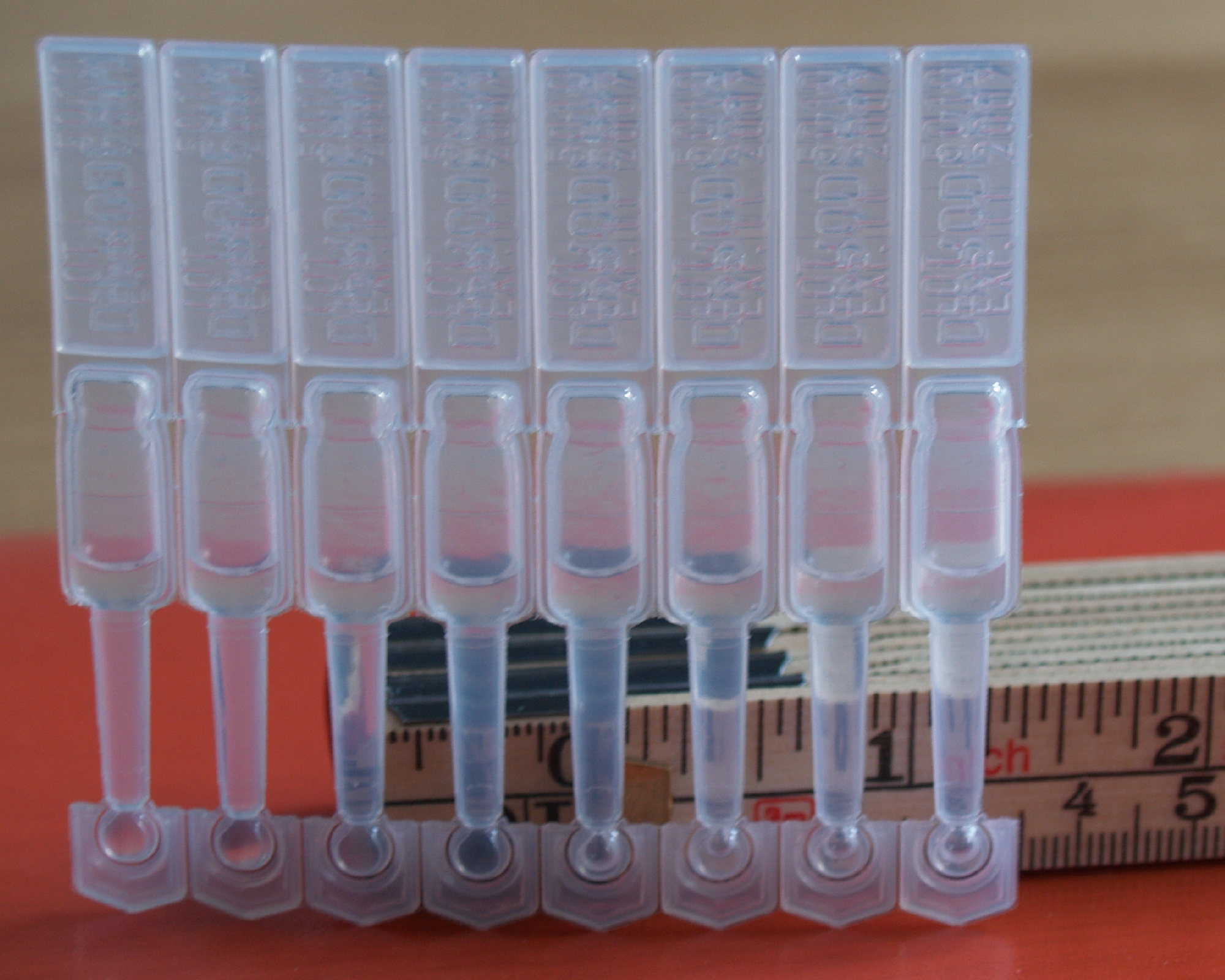 Plastic dispensible pipettes. The ones on the picture contain medicine to be administered into the ear. The ruler has inches at the top and centimeters at the bottom.